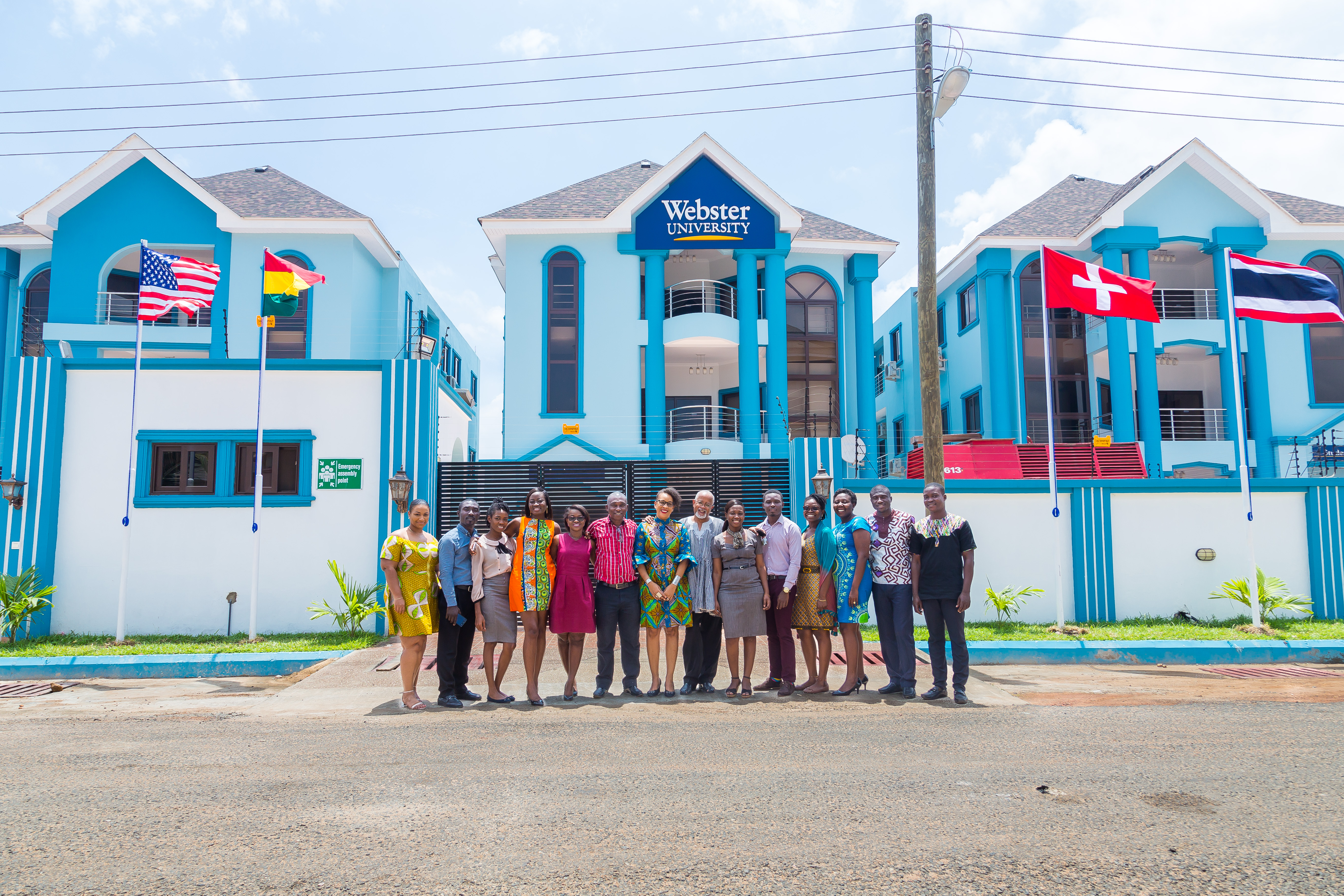 Webster University Ghana Staff